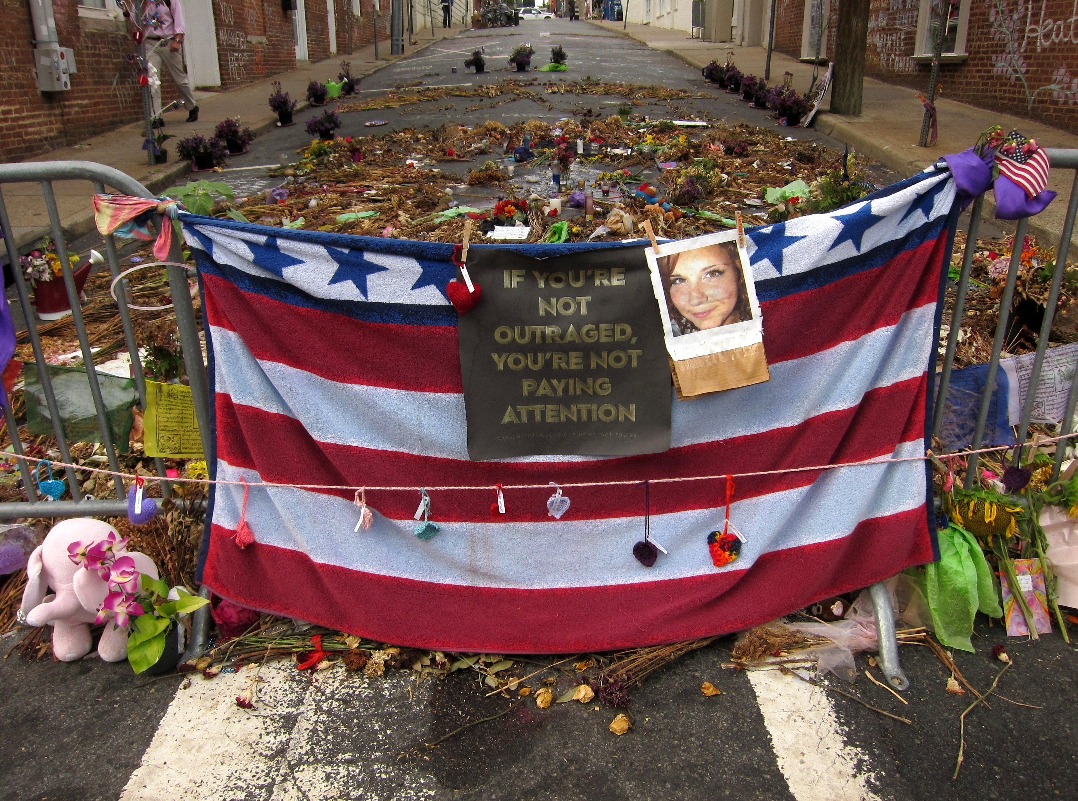 Memorial for Heather Heyer on 4th Street SE in Charlottesville, Virginia. Heyer was killed following the Unite the Right rally.